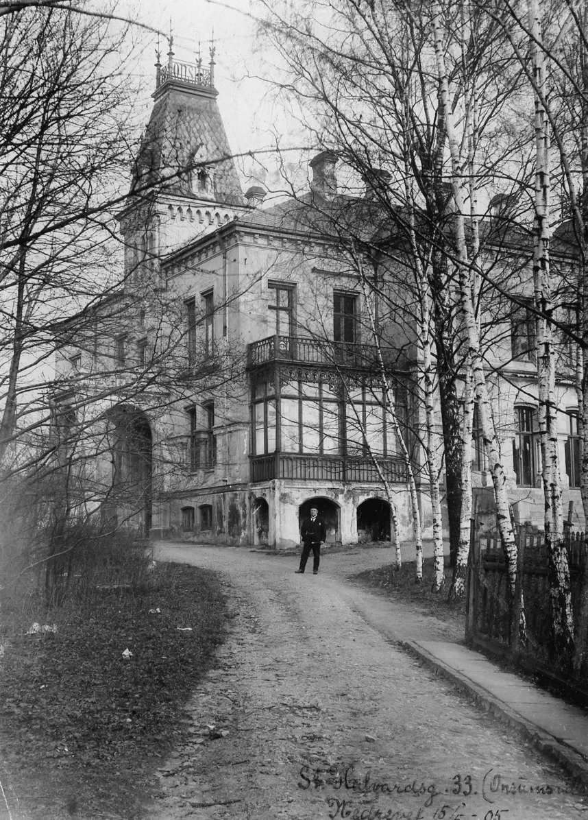 "Onsumslottet" (the "Onsum castle") in St. Halvard street (Oslo) 33, the area also called "Lille Munkengen". Erected in the 1874, demolished 1905. Architects Paul Due and Bernhard Steckmest. Owned by industrialist Oluf Onsum and in 1878 stage for a workers riot (his employees), the Onsum riot.